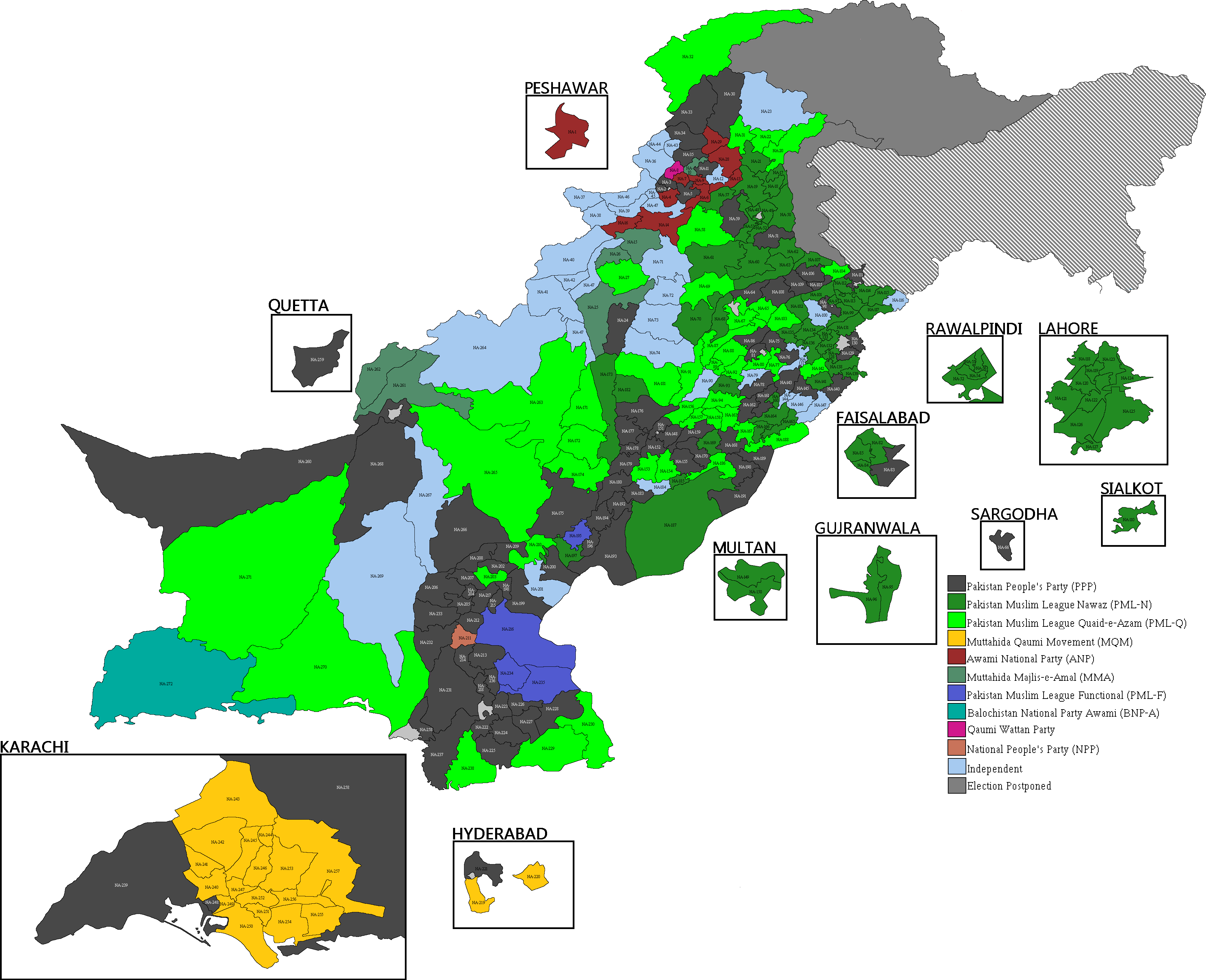 Map of Pakistan showing National Assembly Constituencies and winning parties